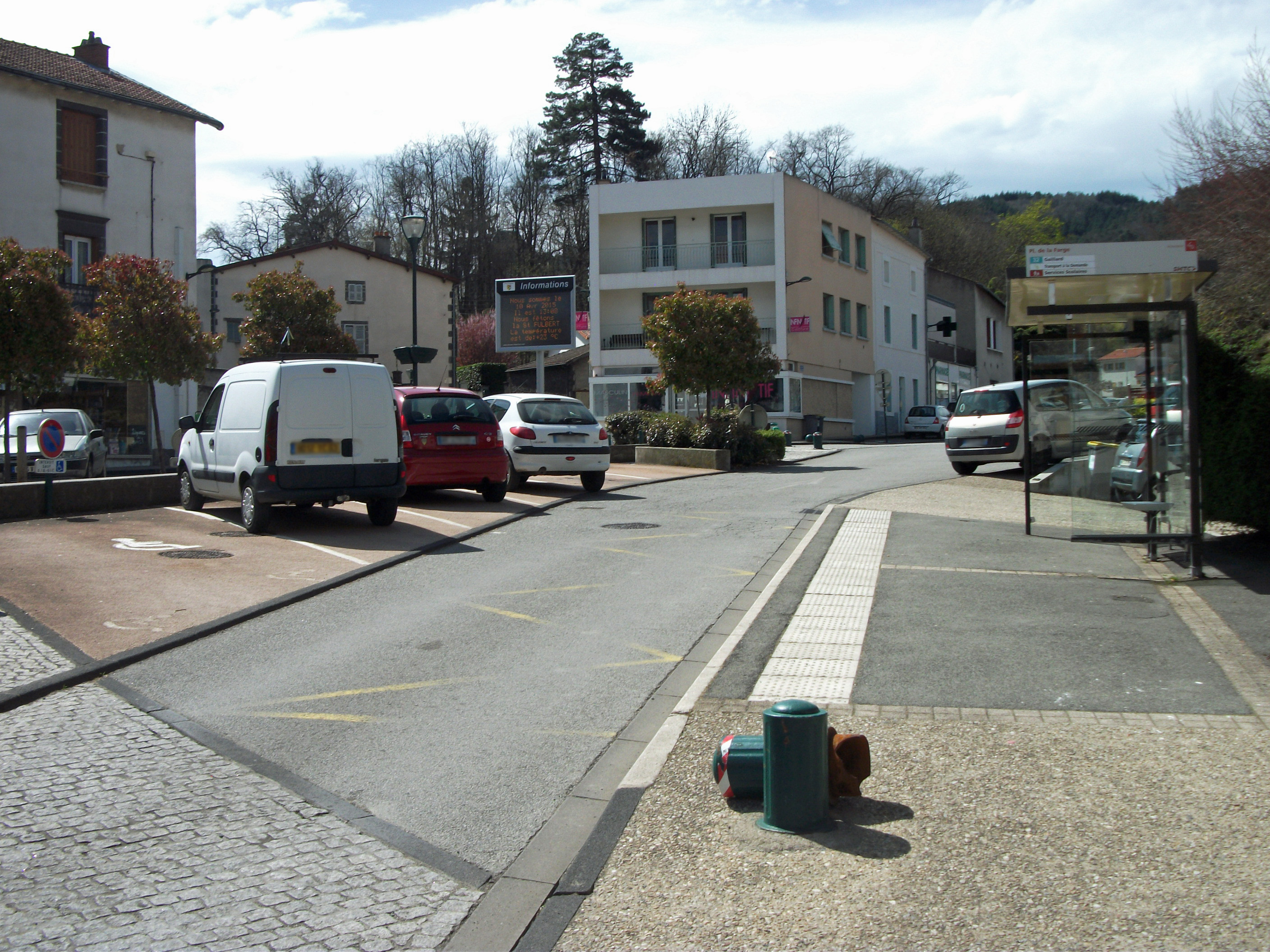 Bus stop Place de la Farge in Nohanent [8149]